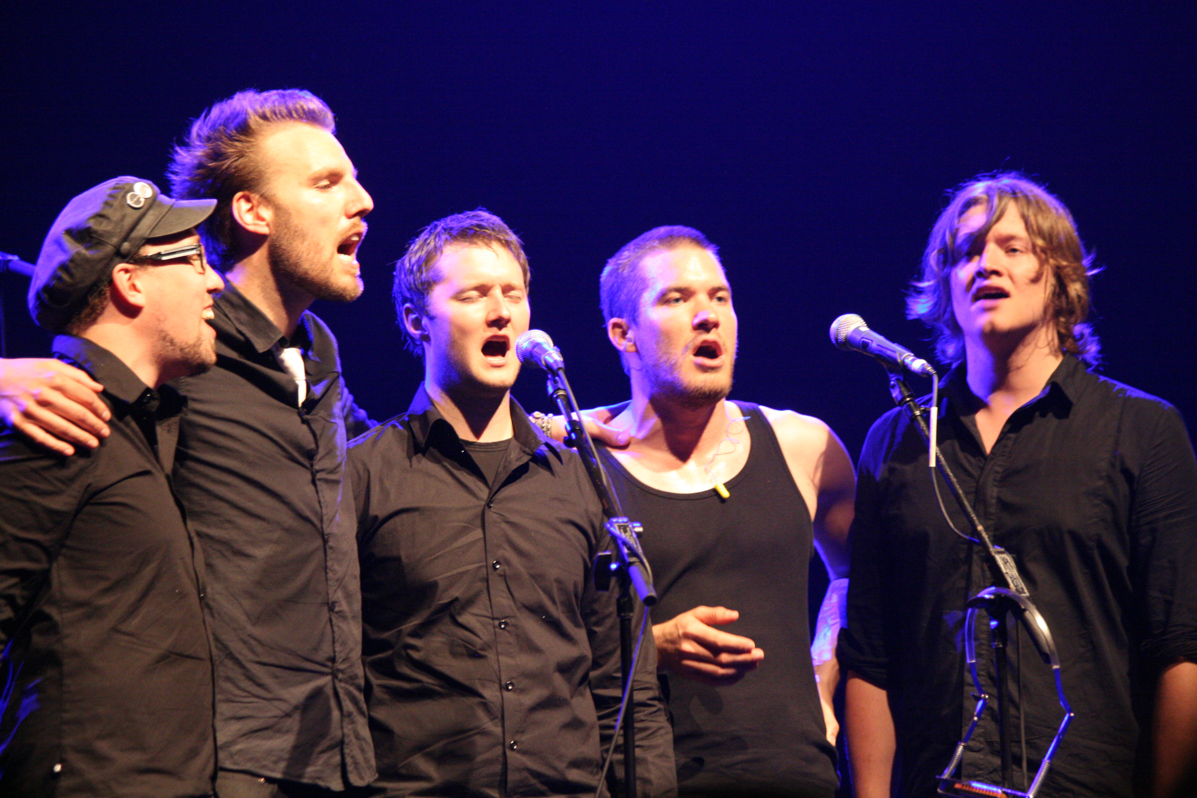 Moon Safari onstage at Rosfest, May 2009